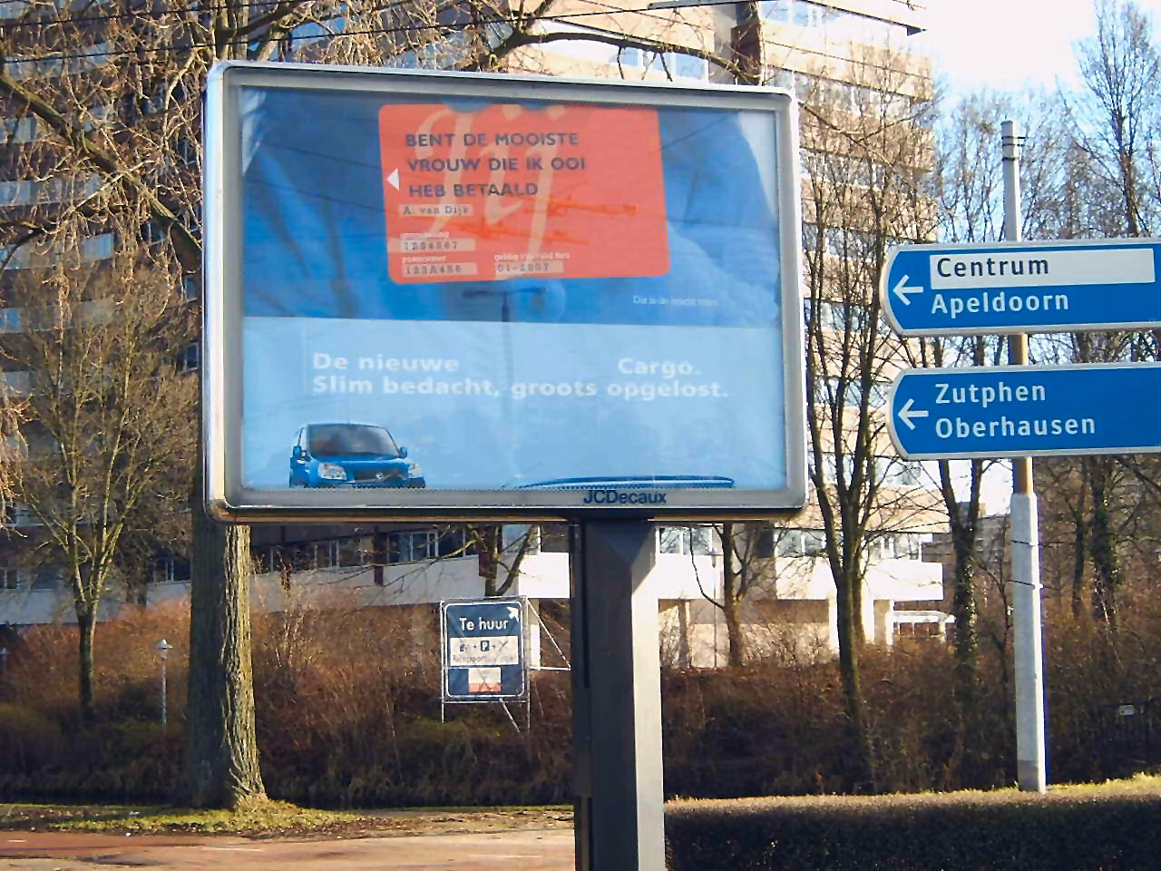 Picture of billboard, with company and product logos blanked out, may be reinstated when they pay me sufficiently ;). slightly messed with afterwards. Used in Billboard (reclame).